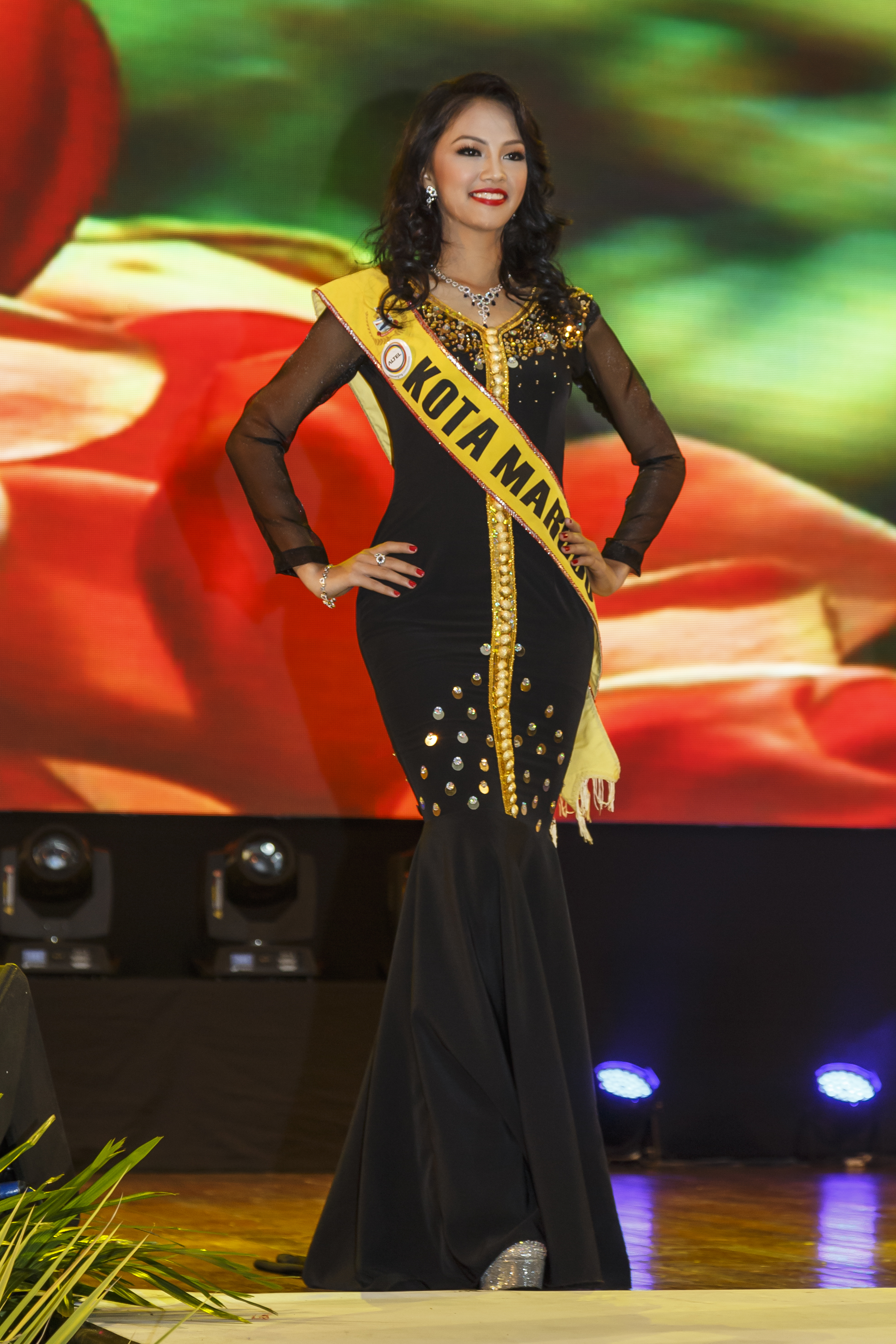 Penampang, Sabah: Presentation of the contestants for Unduk Ngadau 2014 on May 29 in the KDCA Unity Hall. Photo showing the candidate for Kota Marudu, Ms. Scarlett Megan.